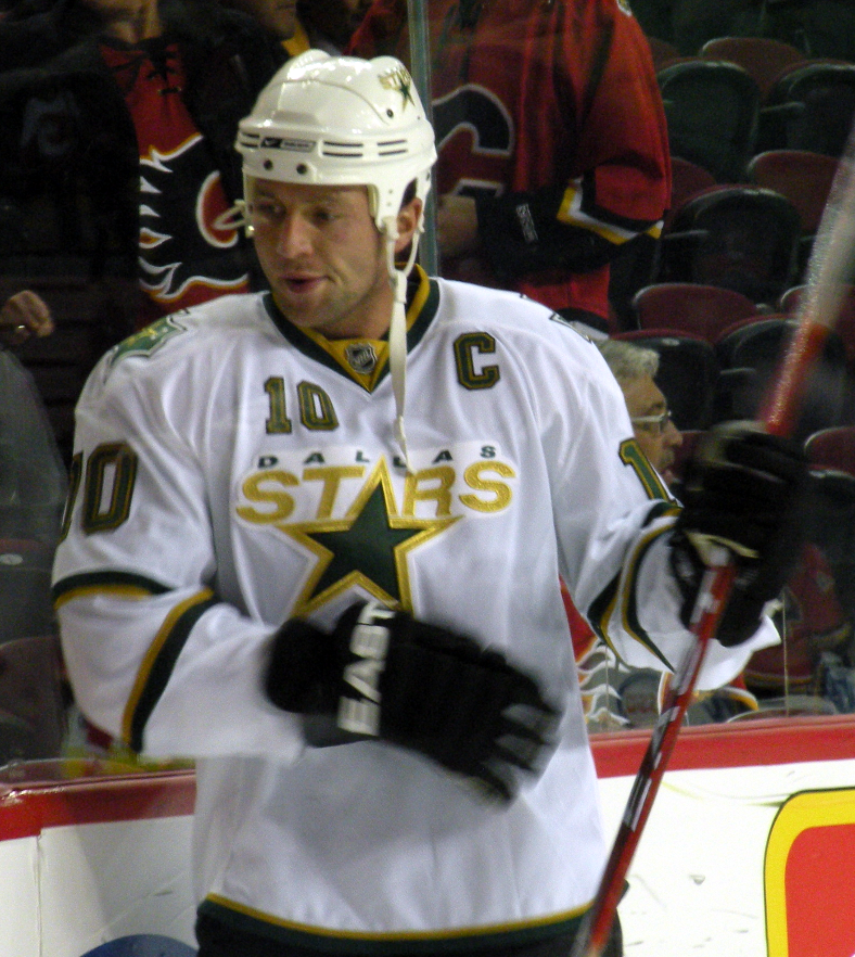 Dallas Stars forward Brenden Morrow prior to a National Hockey League game against the Calgary Flames, in Calgary.